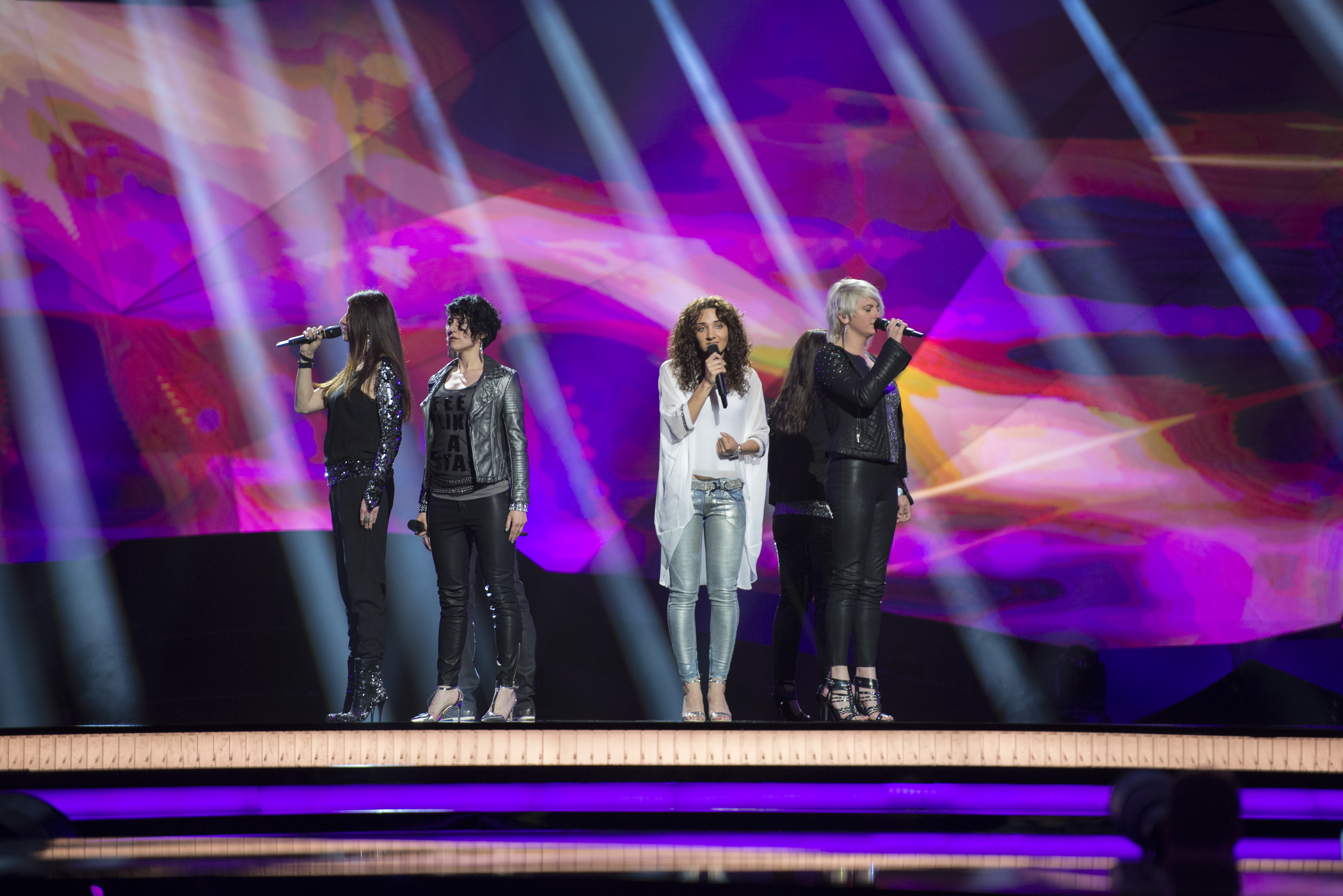 Natália Kelly representing Austria with the song "Shine" during the first dress rehearsal of the first semi final of the Eurovision Song Contest 2013 in Malmö. (Help translate this text)